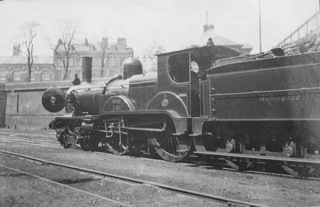 French Express Engine Nord 2.122. Identified as a de Glehn compound loco built in 1891 Railway company: Nord (France) Description/notes: One of two 4-4- locomotives built by SACM for the Nord in 1891 and sold to the Nord-Belge in 1903. 2.122 was built as a Double-Single (4-2-2-0), but was rebuilt as a 4-4-0 in 1892.